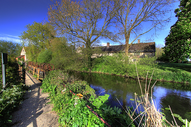 Fiddleford: the Mill and Manor House Another view of the mill and the manor house from the footpath over the sluices.